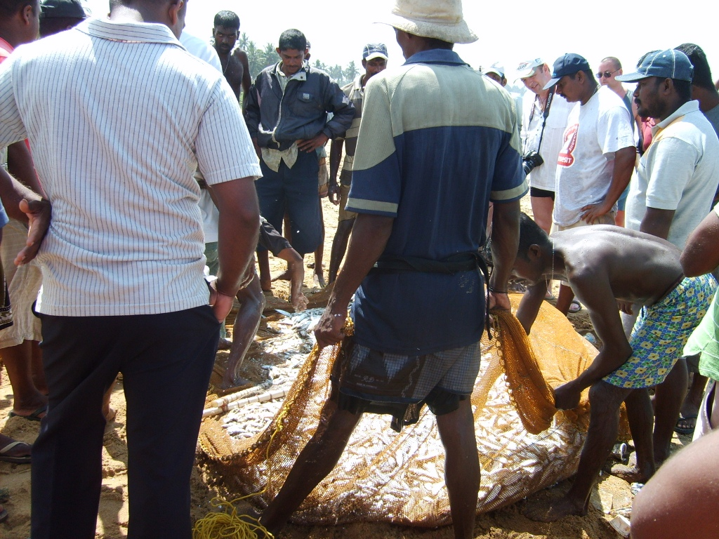 Fishermen and bystanders gather around a large fishing net (called a madela) just hauled in, at a beach in Kalutara, Sri Lanka.